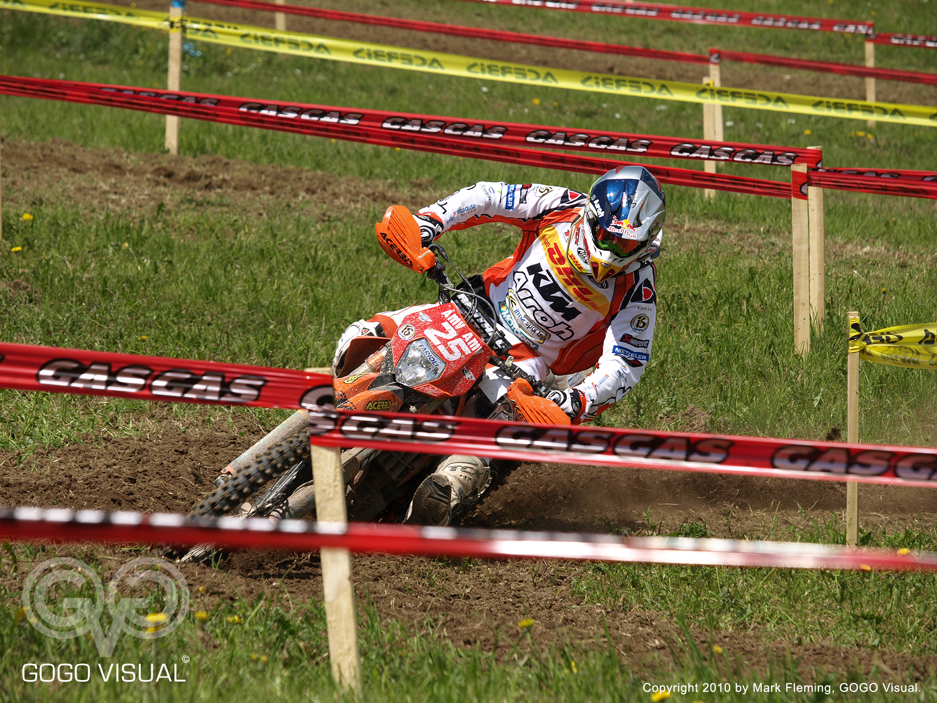 E2 - Ivan Cervantes (Catalonia, KTM) at the 2010 MAXXIS FIM Enduro World Championship GP of Italy, in Lovere (41st Valli Bergamasche).